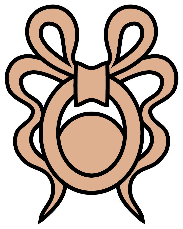 Abstract frontal depiction of the infamous royal wedding hat of Princess Beatrice of York.